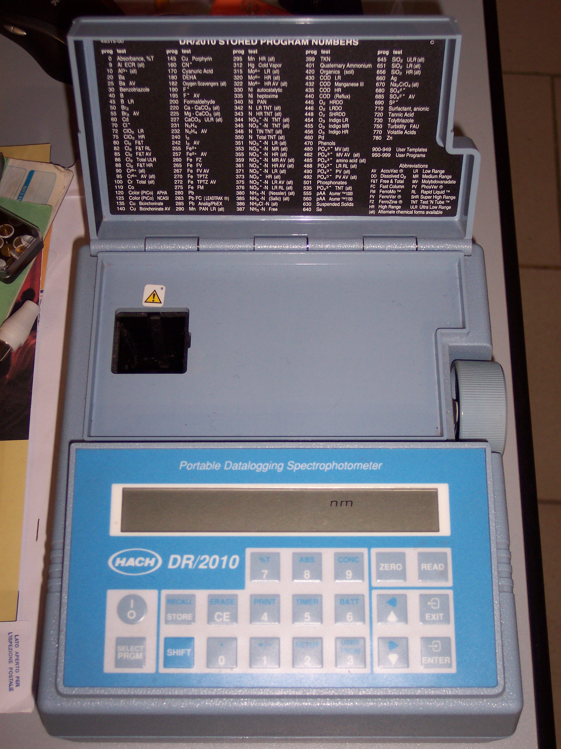 a portable spectrophotometer